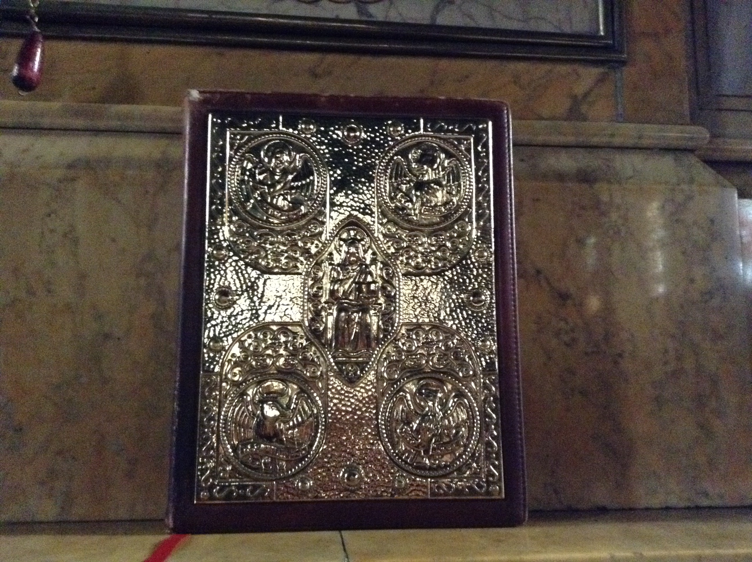 Gospel book used in some high church parishes.